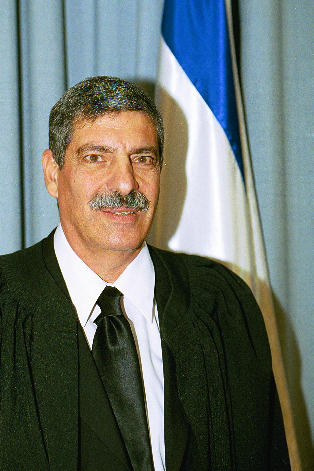 Uri Shoham justice of the supreme court of israel